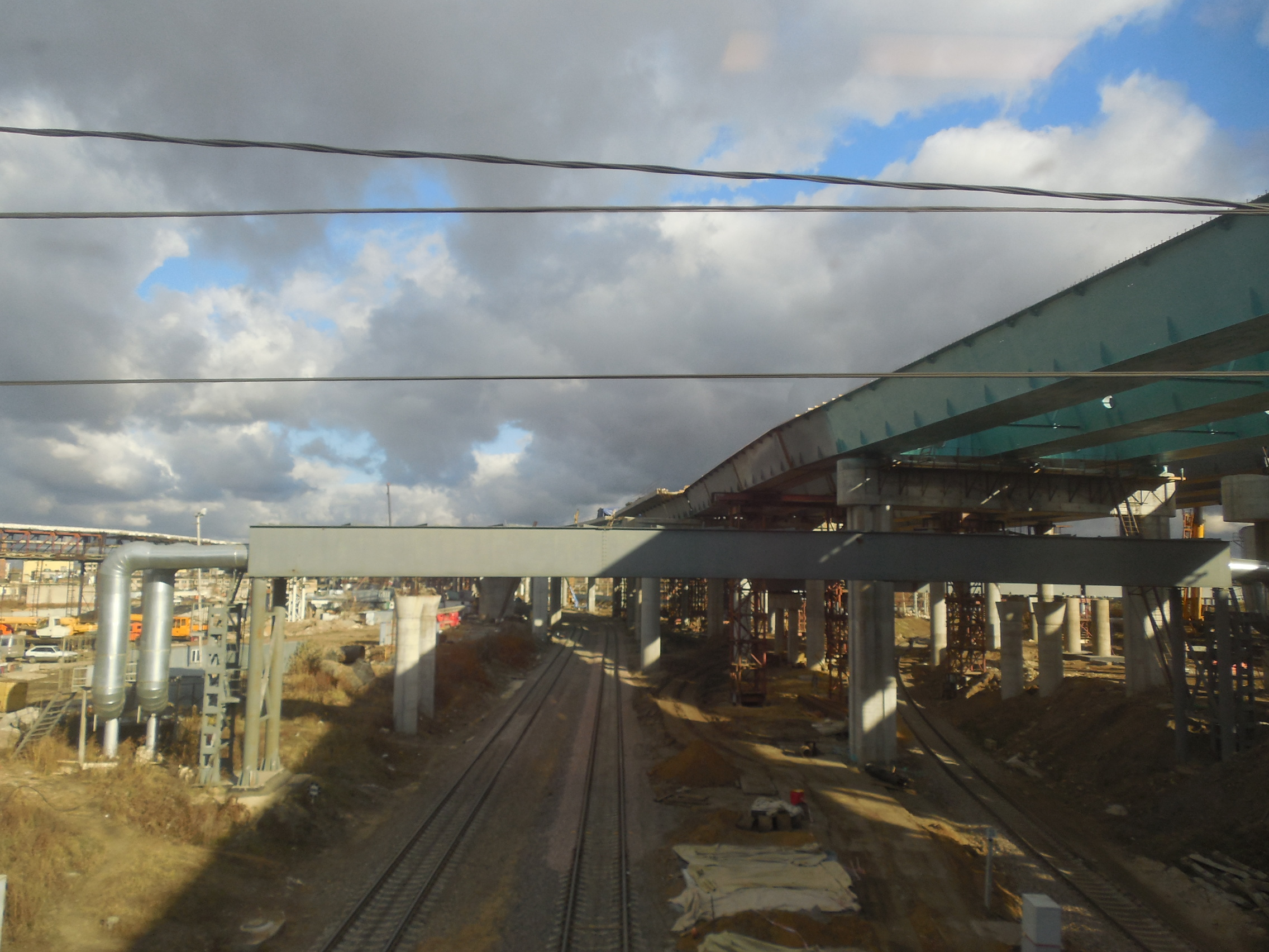 Moscow. Construction of new highway over MKZD railway.